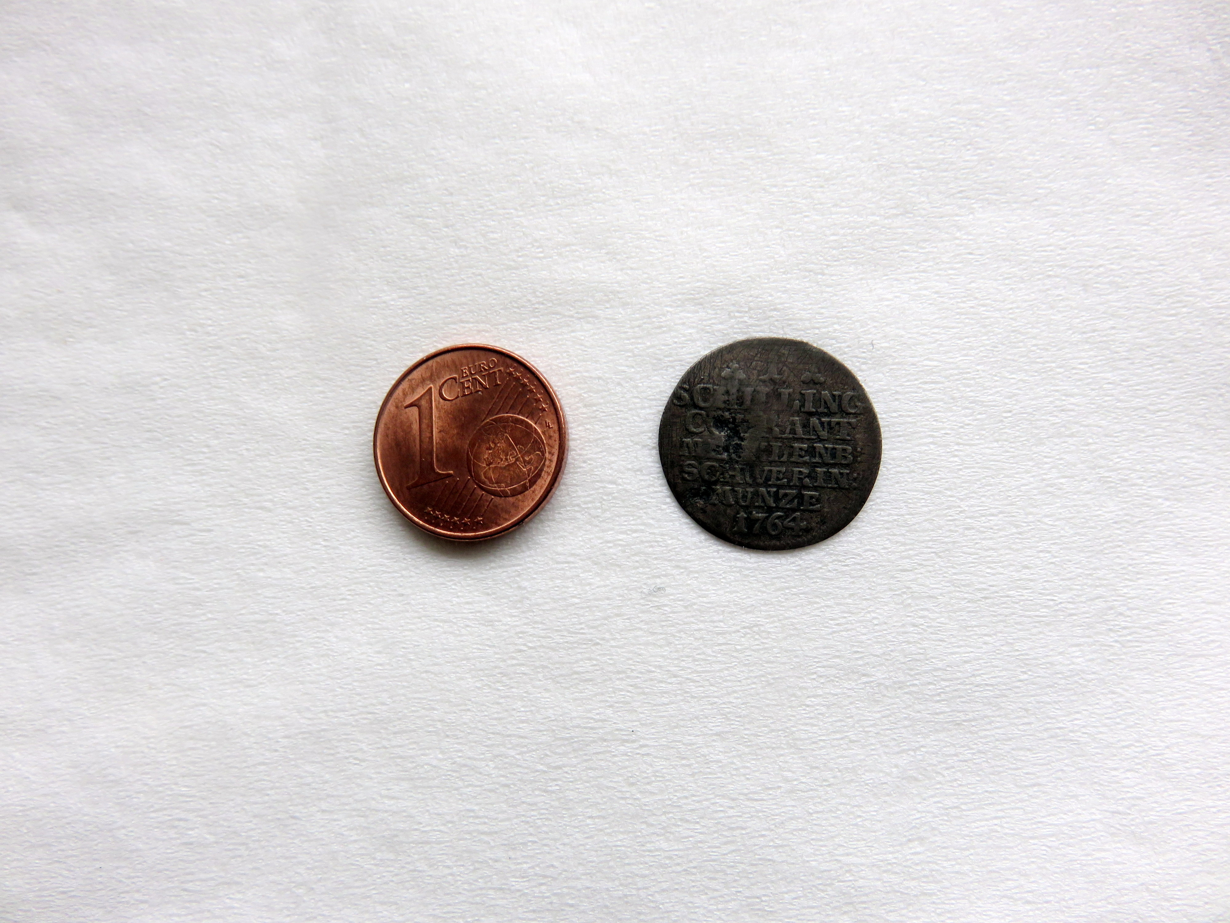 Worn silver coin: a 1 Schilling Courant Mecklenb Schwerin (Germany) of 1764, private find at the shore zone of Kaninchenwerder, a small island in Lake Schwerin in 1986.